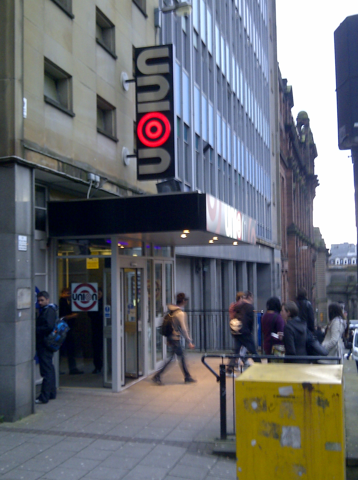 The main entrance to University of Strathclyde Students' Union(USSA)